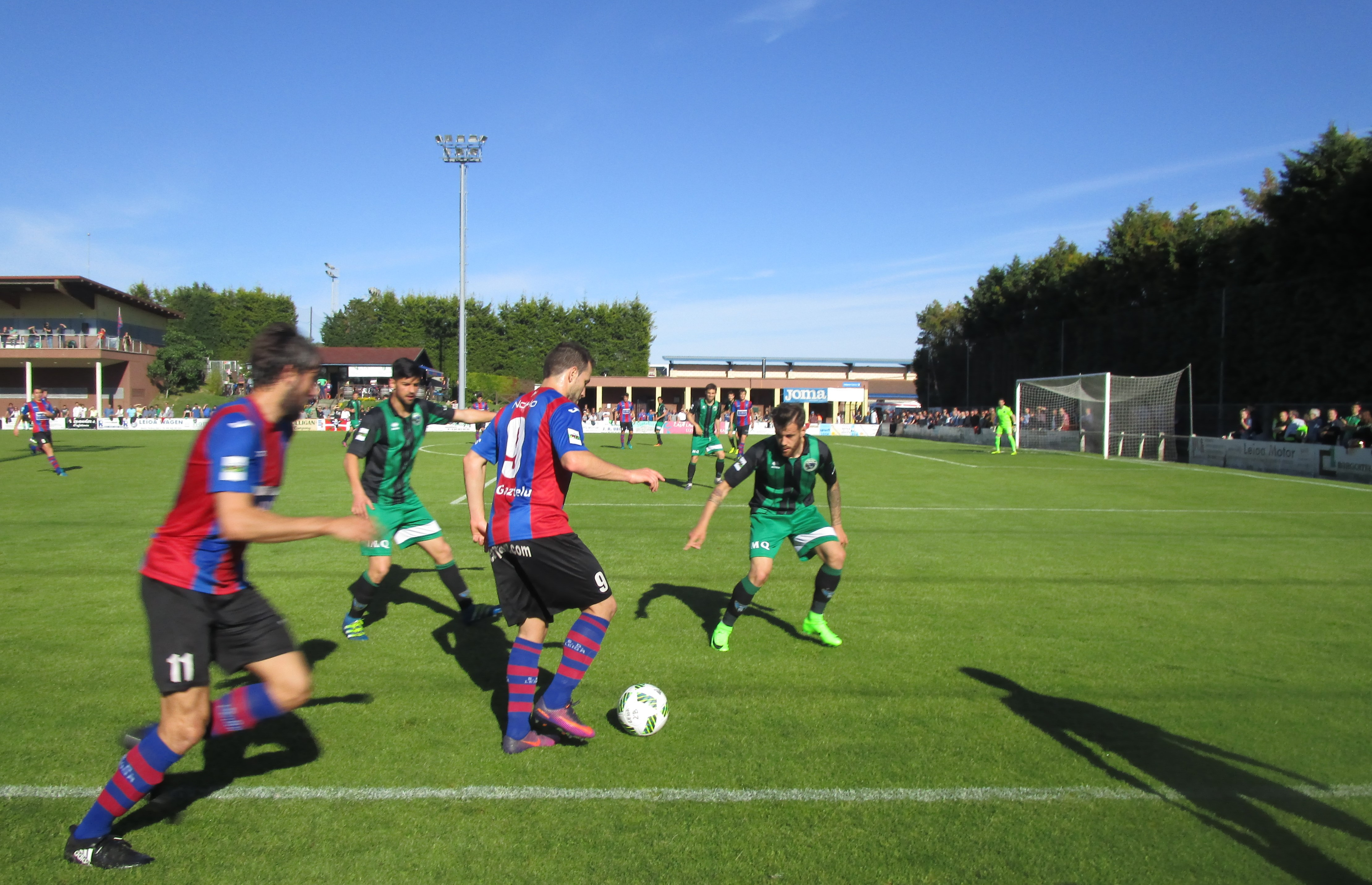 Match between Sociedad Deportiva Leioa and Sestao River Club at Sarriena, Leioa, Biscay, Basque Country, Spain.